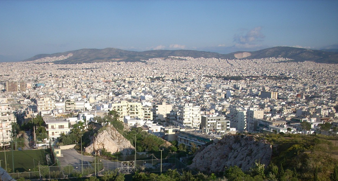 Poikilo Oros. View from hill Lofos Elikonos. Cropped version of File:Kypseli, Athens - view from Lofos Elikonos.jpg by user User:Grzegorz Wysocki.